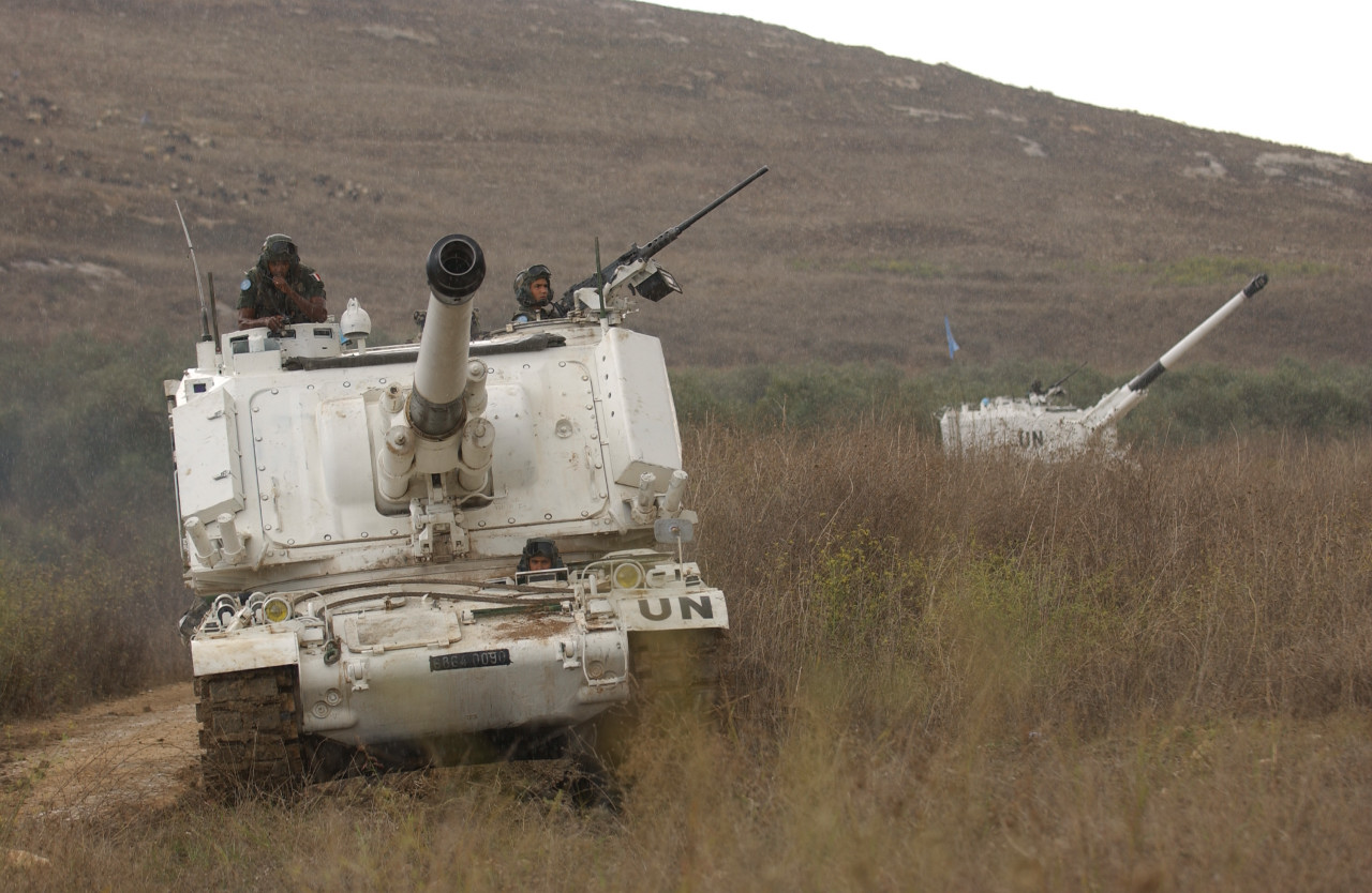 Description canon AUF1 au Liban Date17 October 2006SourceSelf-photographedAuthorfantassin 72Permission(Reusing this file) libre de droits canon AUF1 au Liban